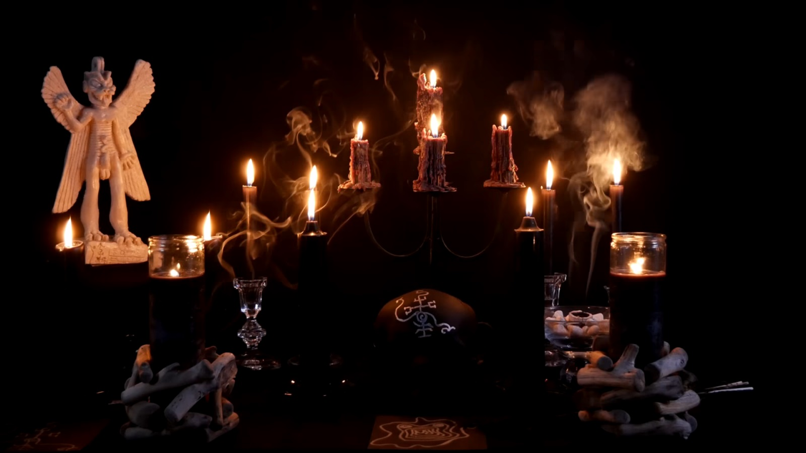 A Zuist (Mesopotamian and Semitic) altar for the worship of Pazuzu, the demon king of the four winds and defender from any other demon, including his arch-nemesis, the vampirical demoness Lamashtu. The statuette of Pazuzu is on the left. The altar uses Simon Necronomicon symbolism, including the seal of Huwawa (the ancestor of Pazuzu) in the foreground, and the seal of Pazuzu himself drawn on the black skullcap at the centre of the altar. Light of candles and the smoke of incenses are offered to the deity.